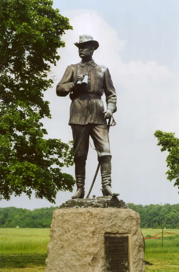 General John Buford, Gettysburg Battlefield Sculpted by James E. Kelly (artist), 1895 Photograph by Einar Einarsson Kvaran, Carptrash 03:12, 2 August 2005 (UTC)